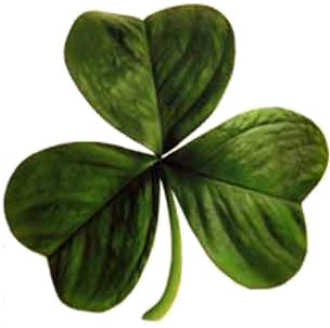 The Shamrock, a typical Irish clover.